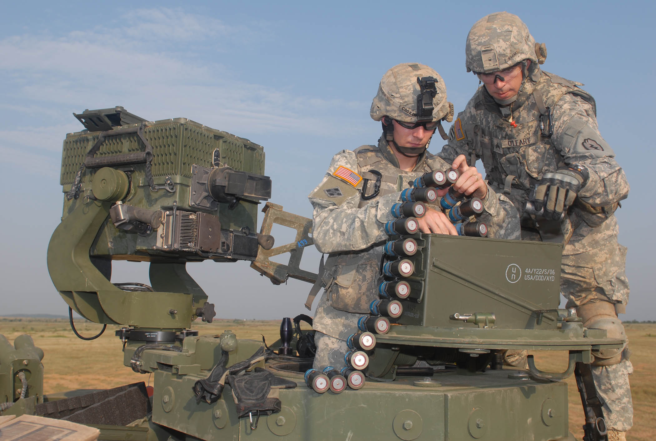 CAMP BUNDELA, India (Oct. 15, 2009) - Spc. Timothy Cooke and Sgt. Kyle O'Leary, both assigned to Troop A, 2nd Squadron, 14th Cavalry Regiment "Strykehorse," 2nd Stryker Brigade Combat Team, 25th Infantry Division, from Schofield Barracks, Hawaii, prepare to shoot the MK 19 or Mark 19 grenade launcher during range training at Exercise Yudh Abhyas 09, Oct. 15. YA09 is a bilateral exercise involving the Armies of India and the United States.